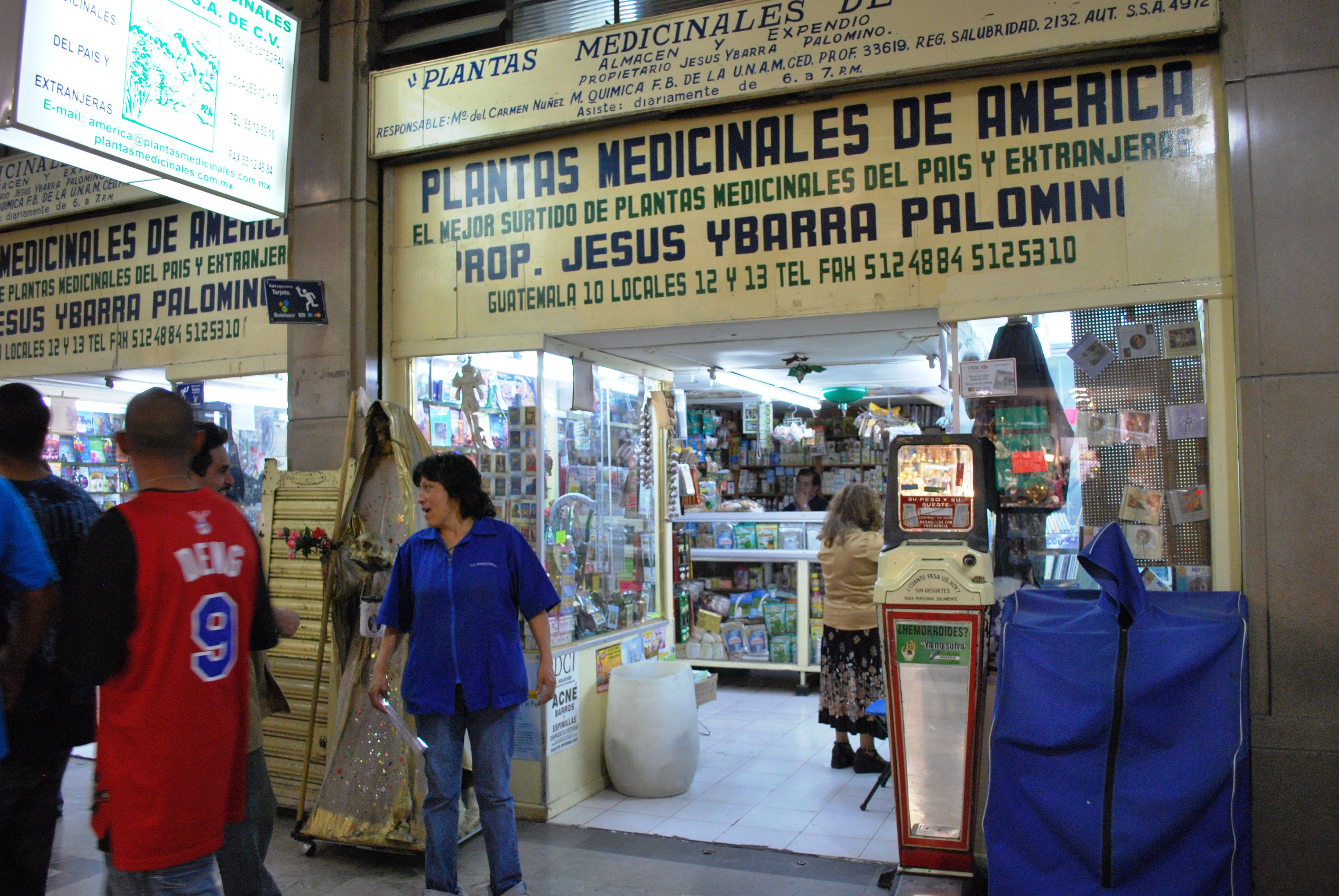 An herbal medicine store in the Pasaje Catedral located in the historic center of Mexico City.